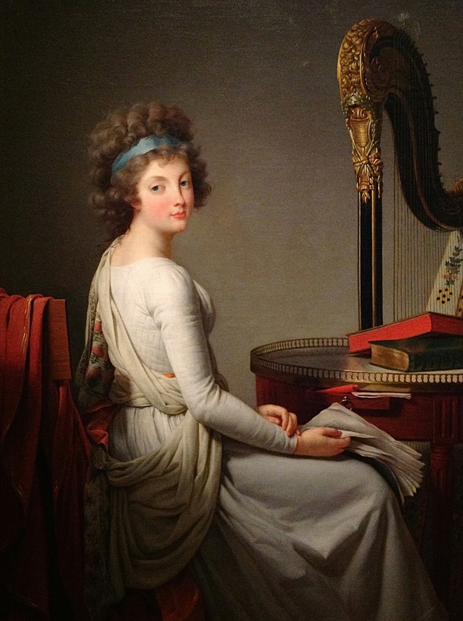 Diane de la Vaupalière, Comtesse de Langeron